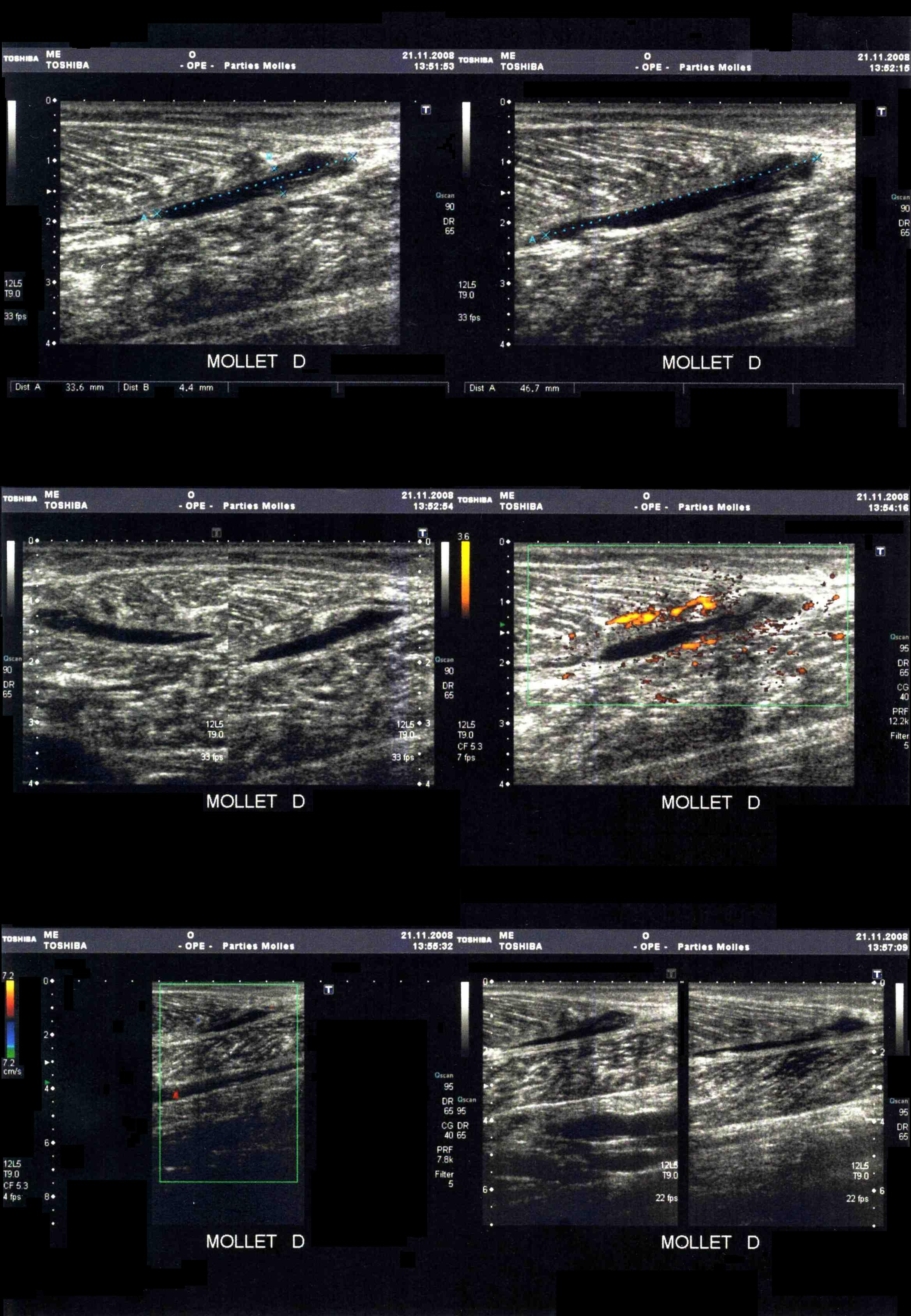 Ultrasound of a 46 × 4 mm strain (muscle tear) of the medial gastrocnemius muscle of the right calf.